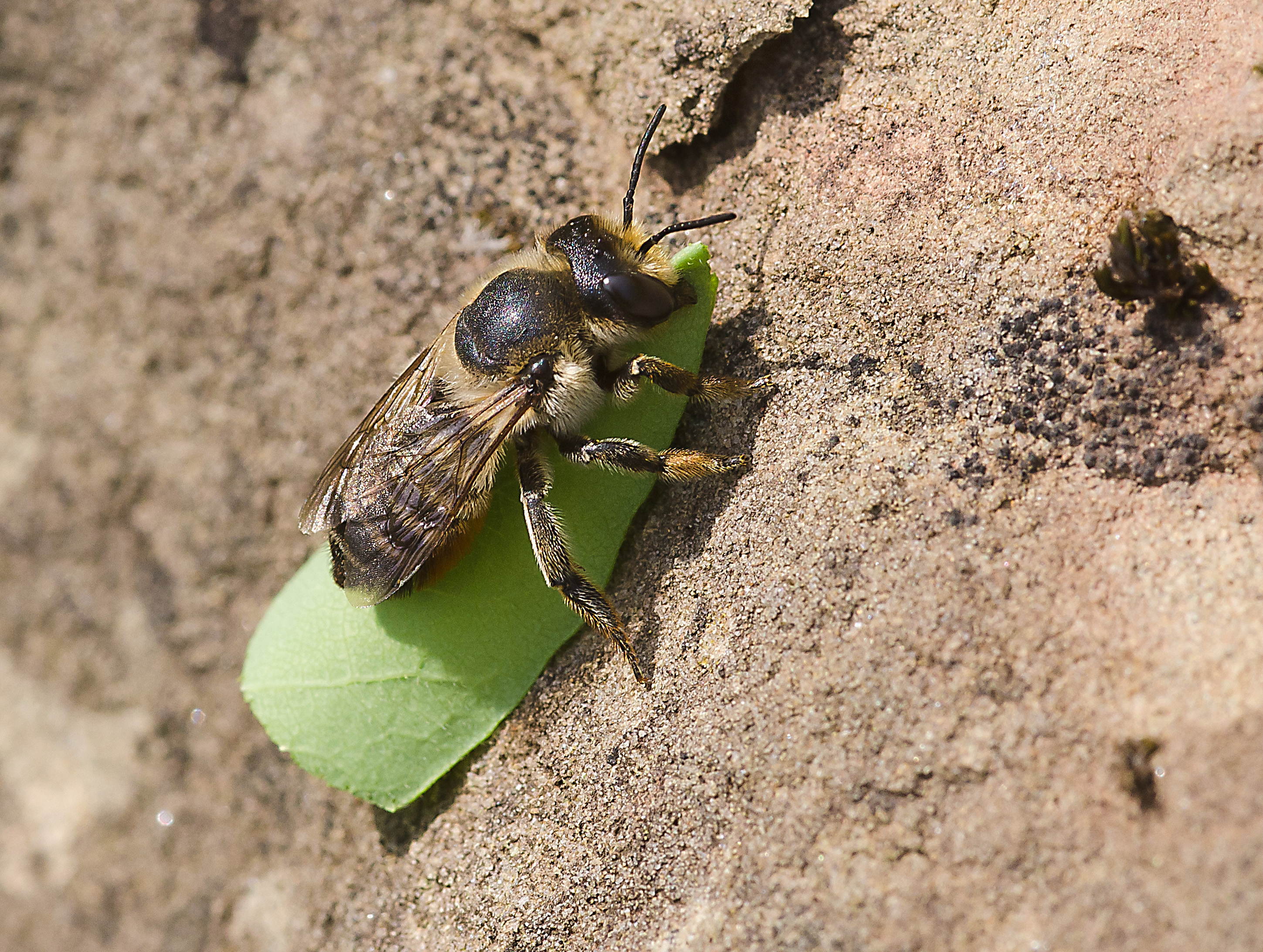 Leafcutter bee, garden, Stuttgart, Germany. Thanks to the members of Entomologie.de for the identification.